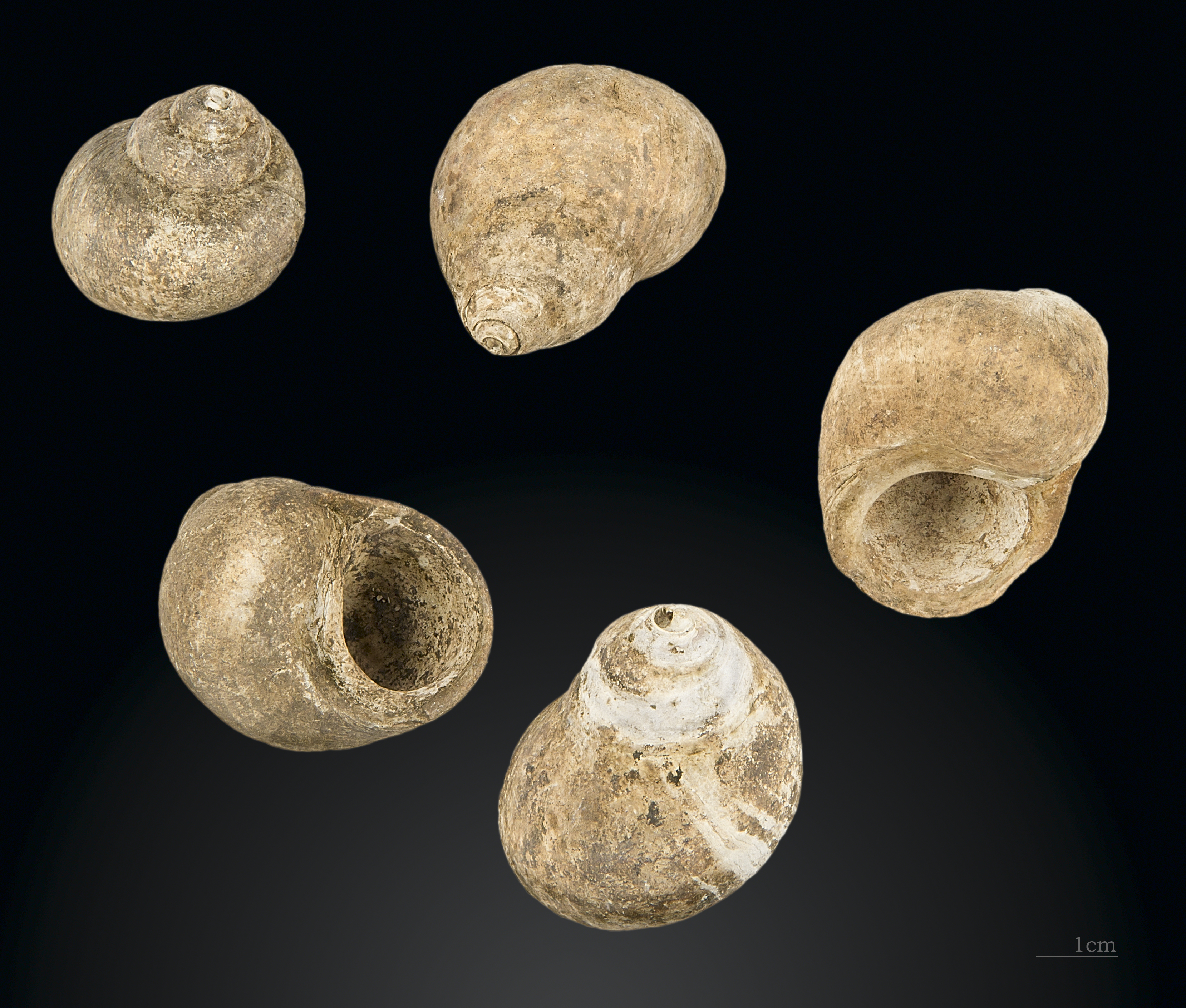 Remains of a meal. Periwinkles from the Cantabrian Lower Magdalenian layer (15 000 before present) of the Altamira cave. From excavations by Édouard Harlé in 1881.